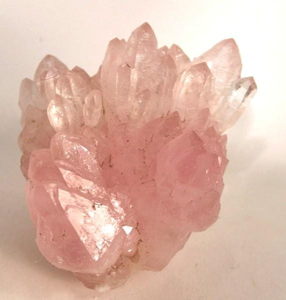 Quartz (Var.: Rose Quartz) Locality: Ilha claim, Taquaral, Itinga, Jequitinhonha valley, Minas Gerais, Southeast Region, Brazil (Locality at ) Size: 4.5 x 4.5 x 3.4 cm. A fine rose quartz crystal cluster from the Ilha claim of Brazil. Two generations of rose quartz comprise this piece. Very glassy, elongate, lighter pink rose quartz spires dominate the skyline above the field of stouter, vivid pink rose quartz crystals. This is classic, old-time material from the 1960s or 1970s from this famed deposit, located on a low island in the middle of a river. Ex. Jaime Bird Collection.